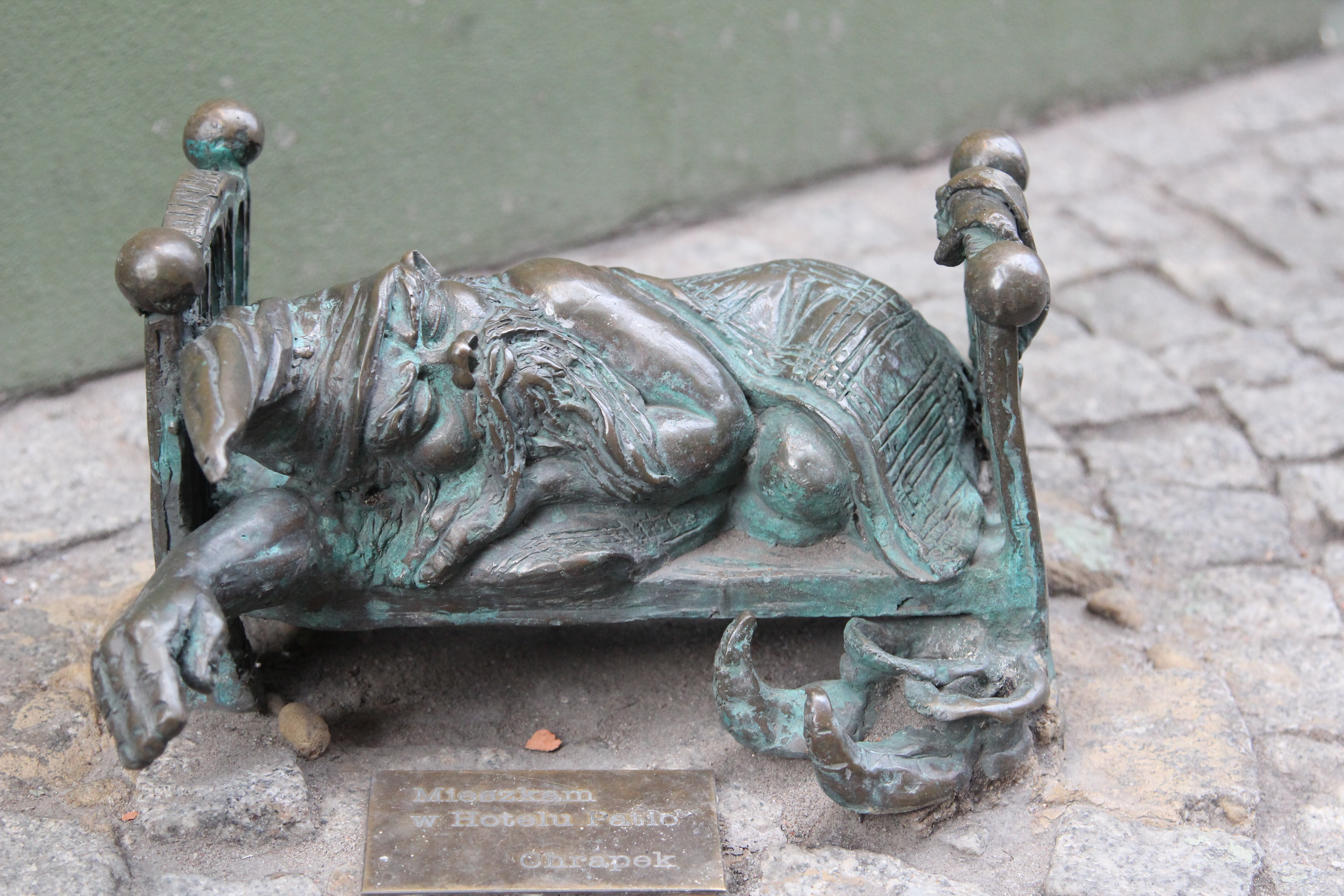 Snorer (Chrapek) dwarf from Patio Hotel on Kiełbaśnicza 24-25